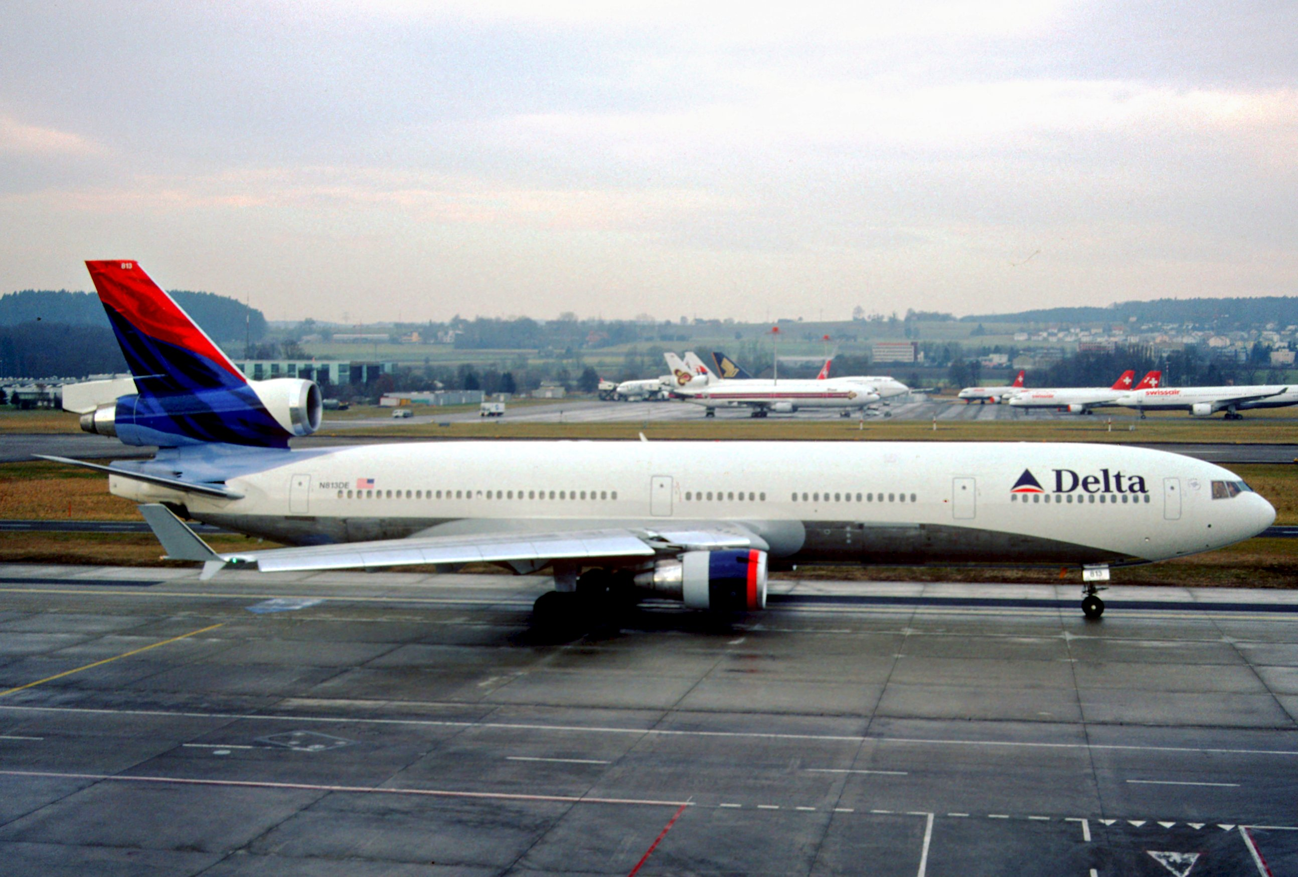 01/12/1993 McDonnell Douglas N90178 01/05/1996 McDonnell Douglas N9017S 15/10/1996 Delta Air Lines N813DE 01/02/2006 Federal Express N813DE 10/07/2006 Federal Express N526FE FedEx Express Flight 80 was a scheduled cargo flight from Guangzhou Baiyun International Airport in the People's Republic of China, to Narita International Airport in Narita, Chiba Prefecture (near Tokyo), Japan. On March 23, 2009, a McDonnell Douglas MD-11F (N526FE) operating the flight crashed at 6:28 am JST (21:48 UTC, March 22), while attempting a landing on Runway 34L in gusty wind conditions. The aircraft became destabilized at flare and touchdown resulting in an unrecovered "bounced" landing with structural failure of the landing gear and airframe, and came to rest off the runway, inverted, and burning fiercely. The captain and first officer, the jet's only occupants, were both killed.